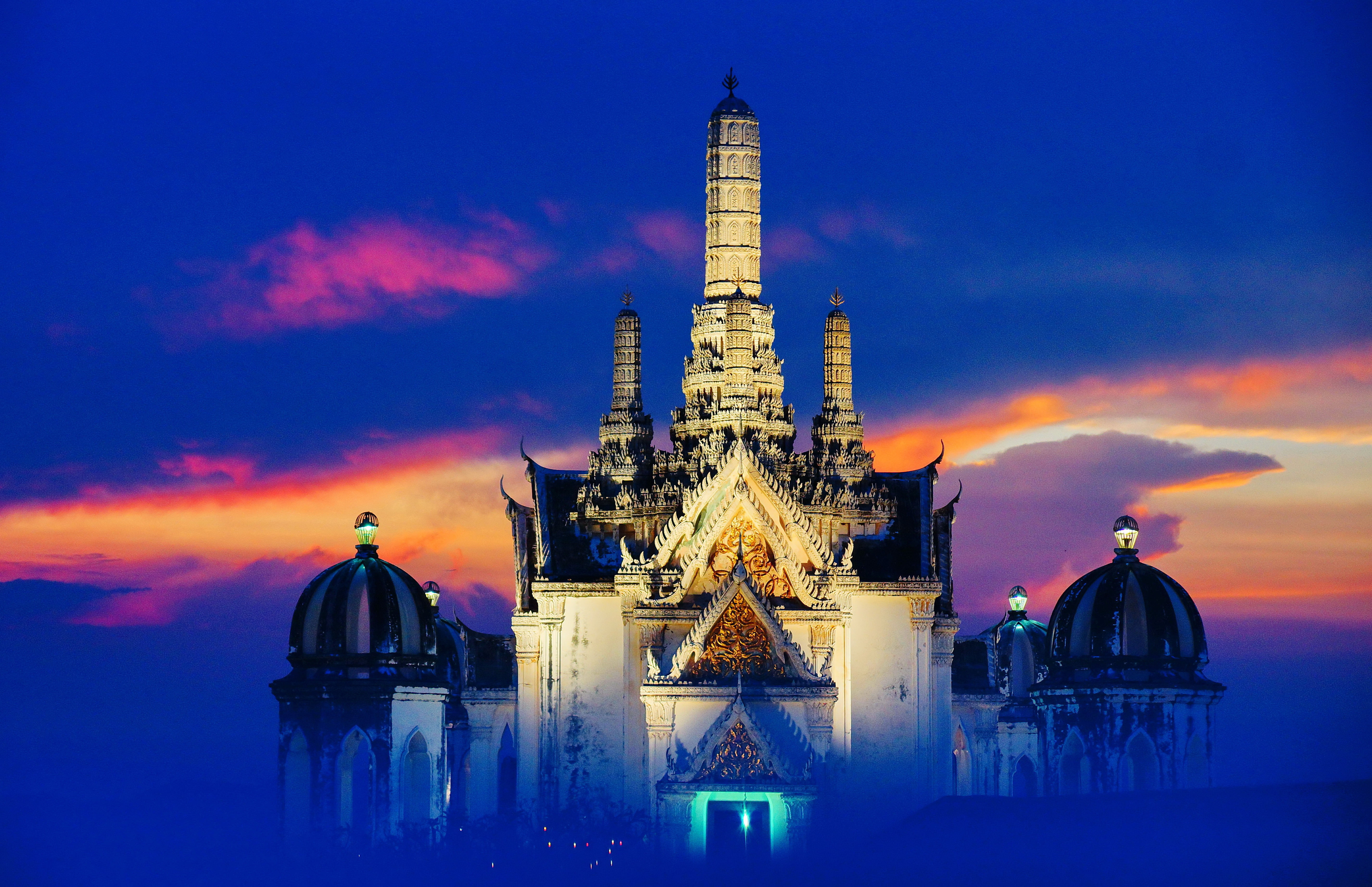 Wetchayan Wichian Hall (พระที่นั่งเวชยันต์วิเชียรปราสาท, "Crystal Hall of Victory"), in Phra Nakhon Khiri Historical Park, Phetchaburi Province